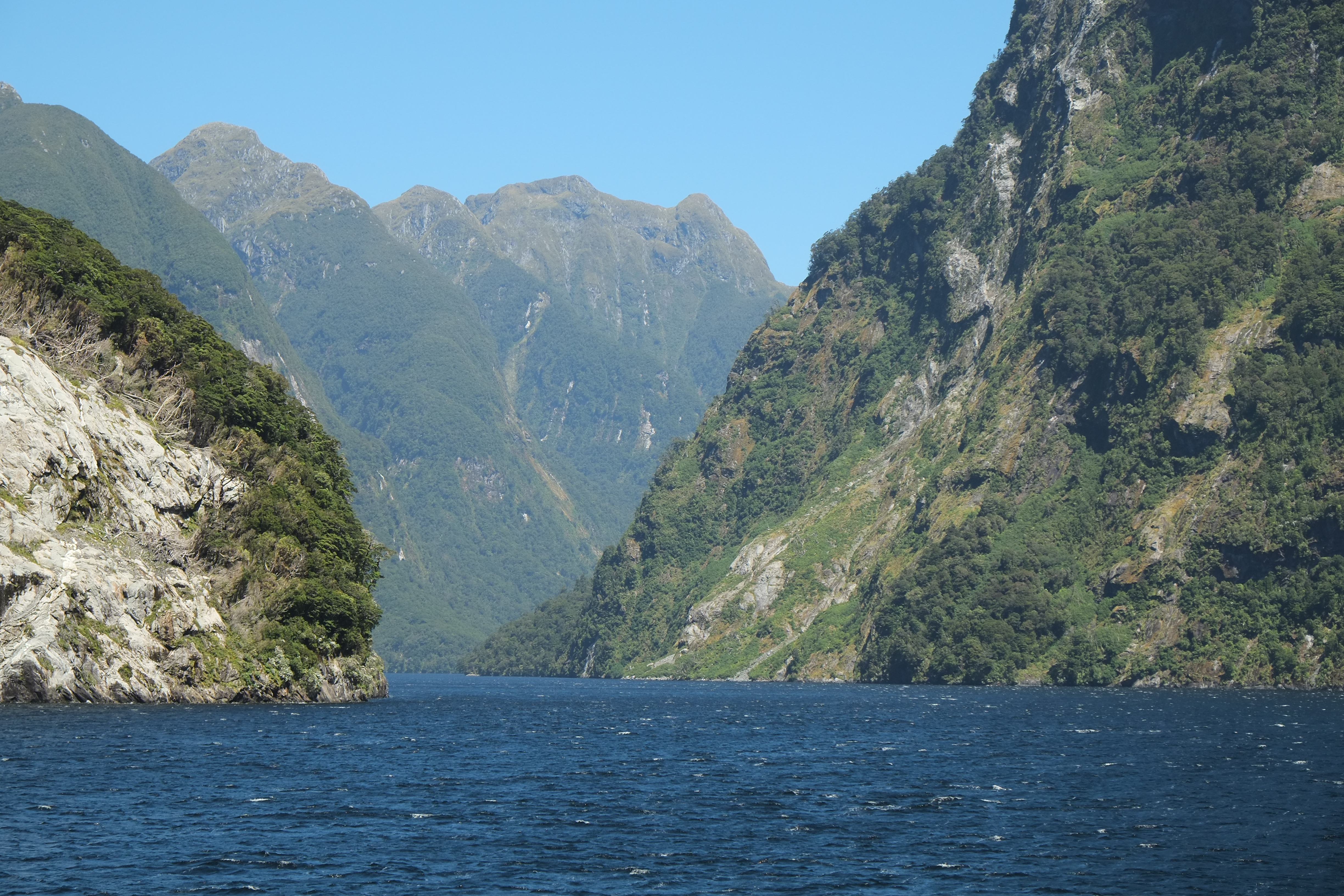 Crooked Arm of Doubtful Sound, looking south into the section before Turn Point